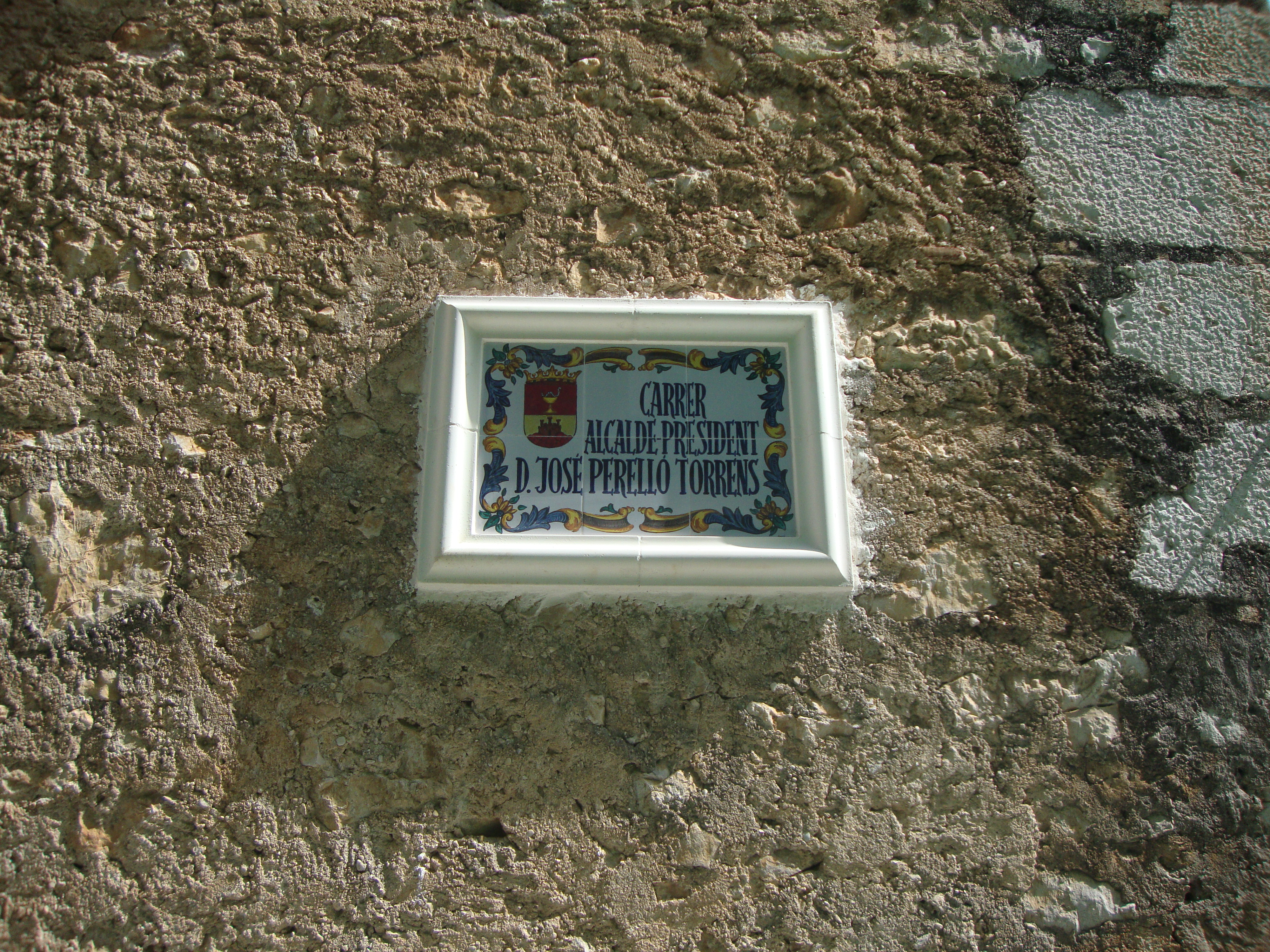 Detalle de la placa de la calle de Tormos dedicada al alcalde José Perelló Torrens